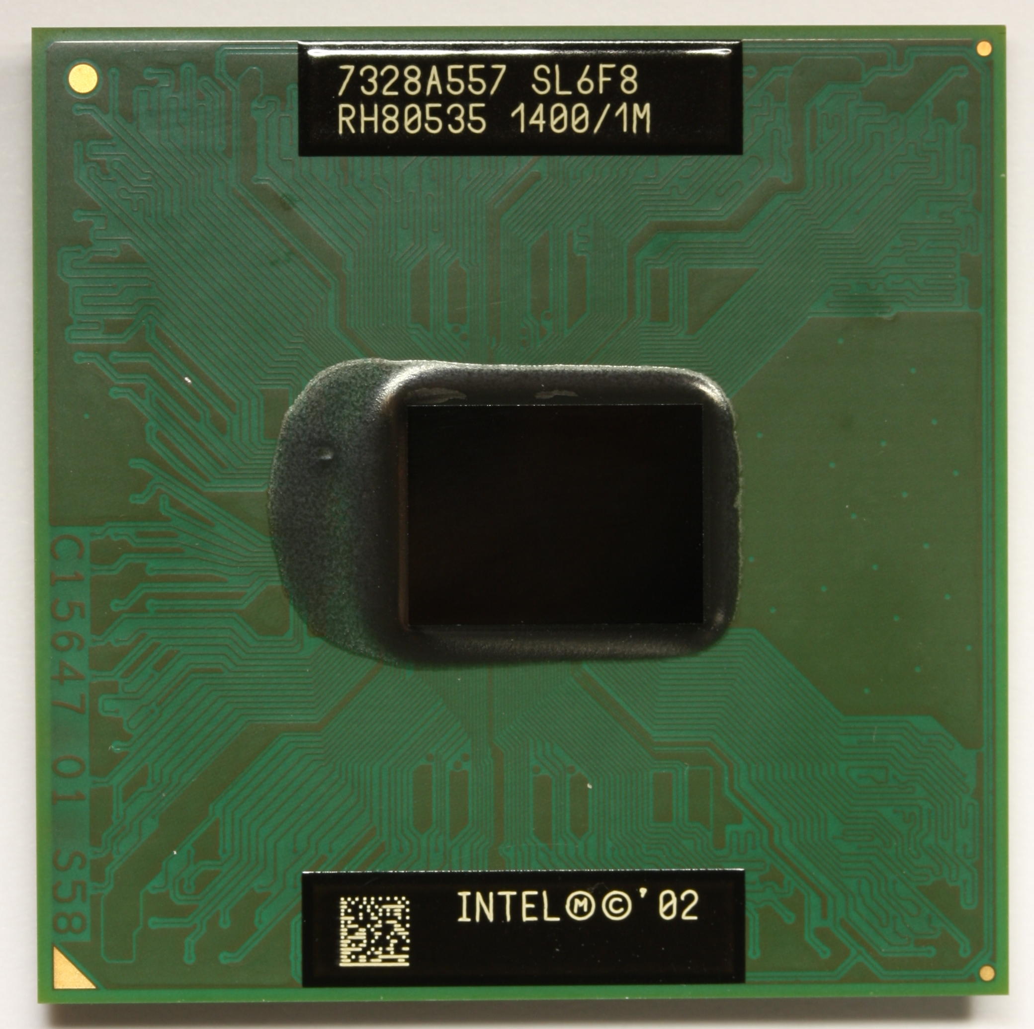 The top side of an Intel Pentium M 1.4 (RH80535GC0171M) CPU